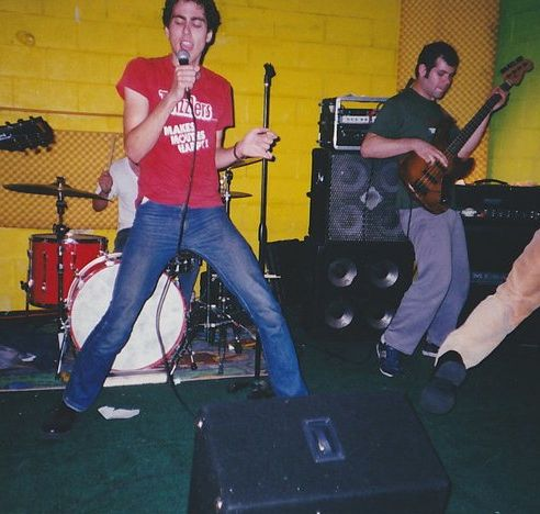 Paris, Texas. Live at the Volcano Room, early 2000s, Indianapolis, Indiana.